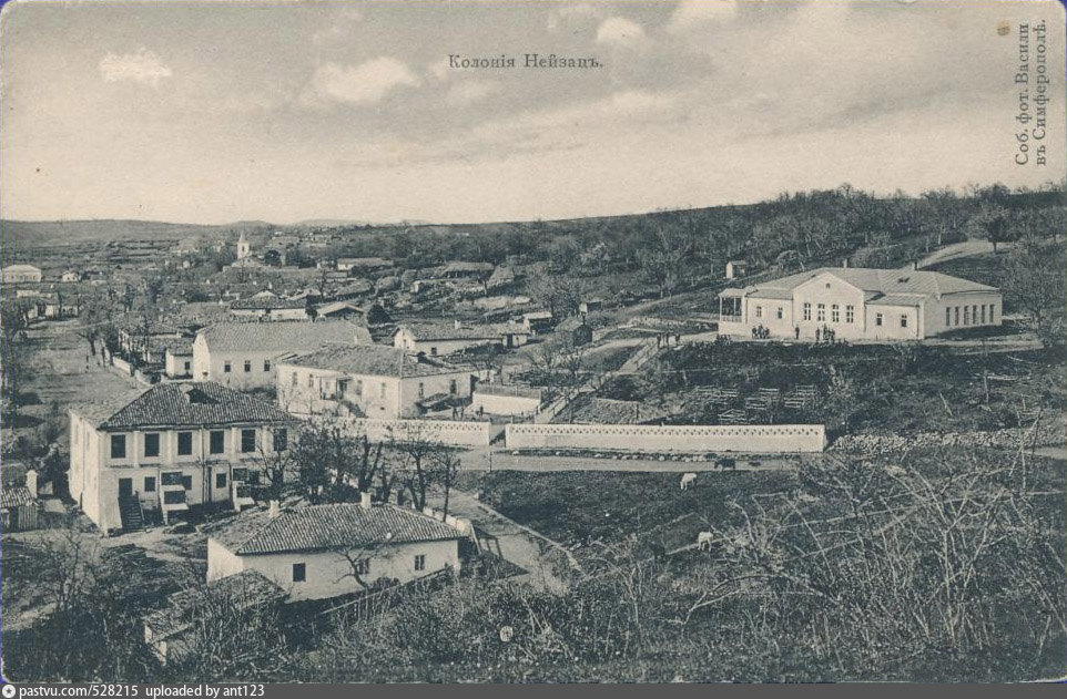 Neyzats colony. Crimea, 1900